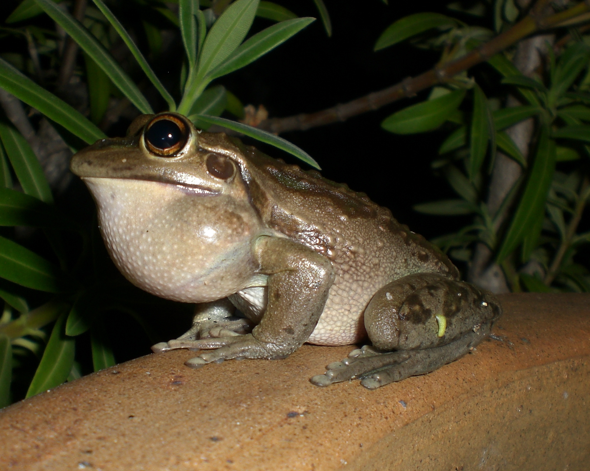 An image from a compact camera of Litoria moorei, calling one many active specimens in a garden in Swanbourne, Western Australia.